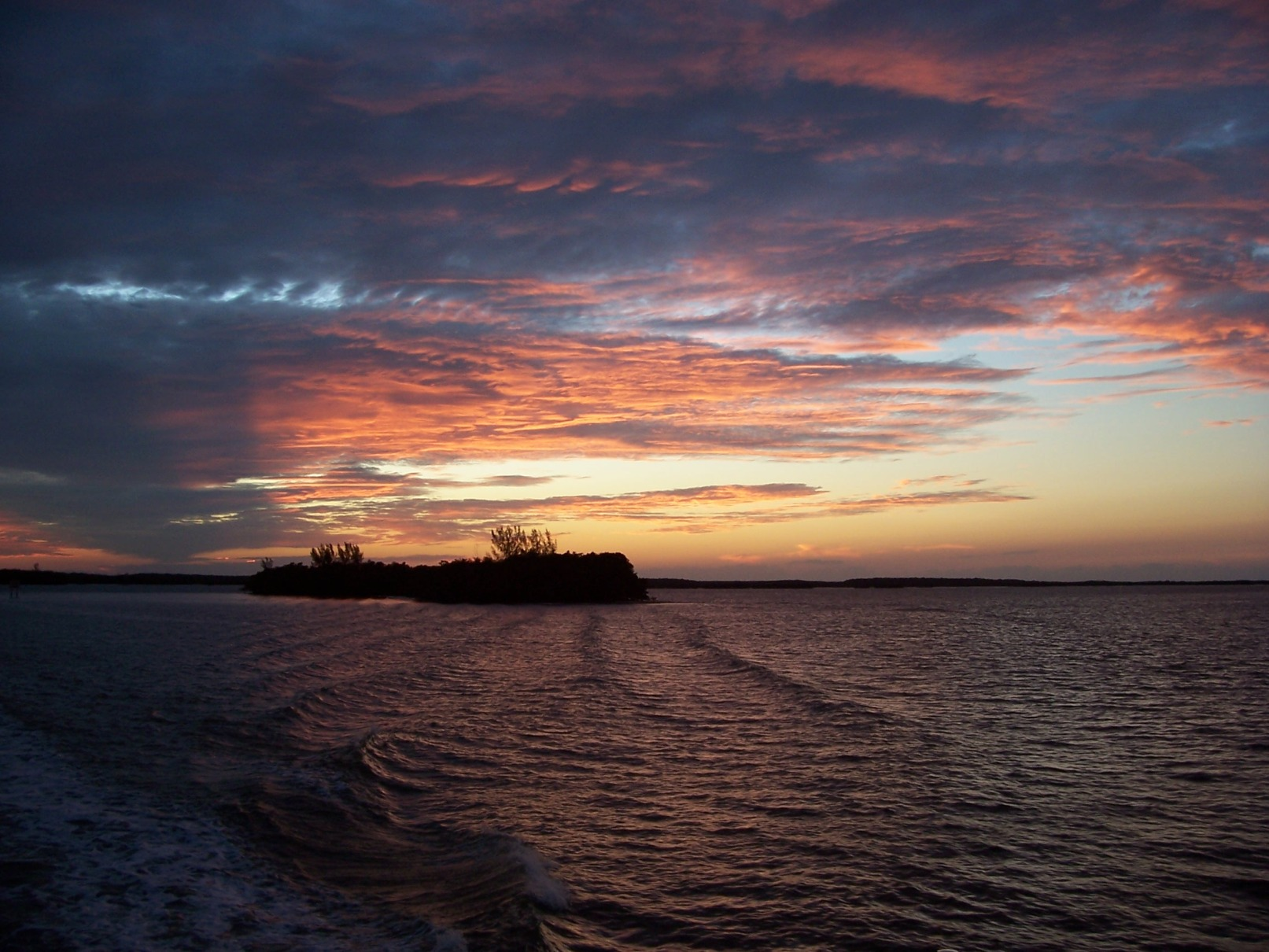 A picture of Biscayne National Park taken by me.